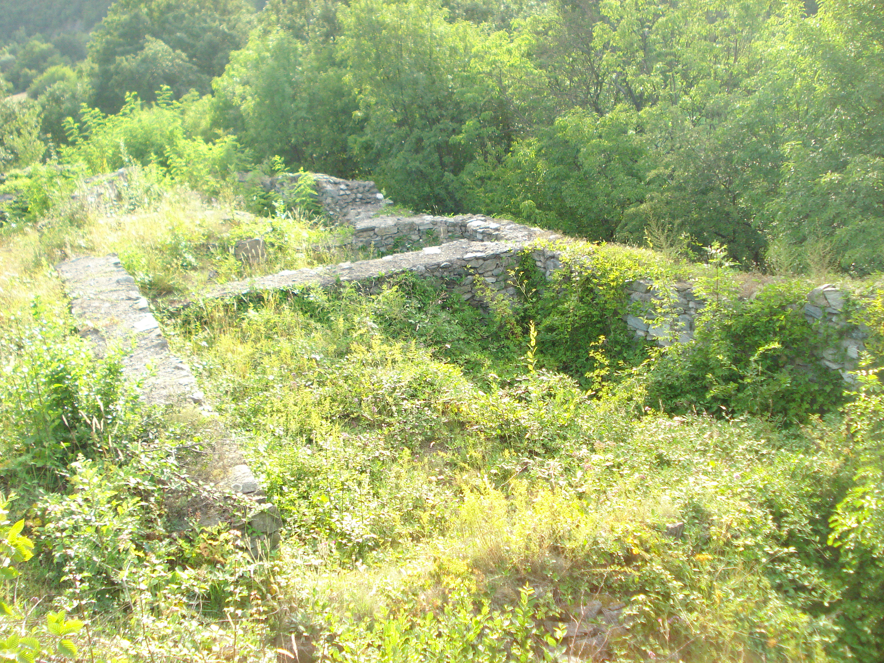 Kraku Lu Jordan, Brodice, Kučevo, Serbia. Roman fortification and gold foundry from III century A.D. Archaeological Sites of Exceptional Importance and Cultural Heritage of Serbia